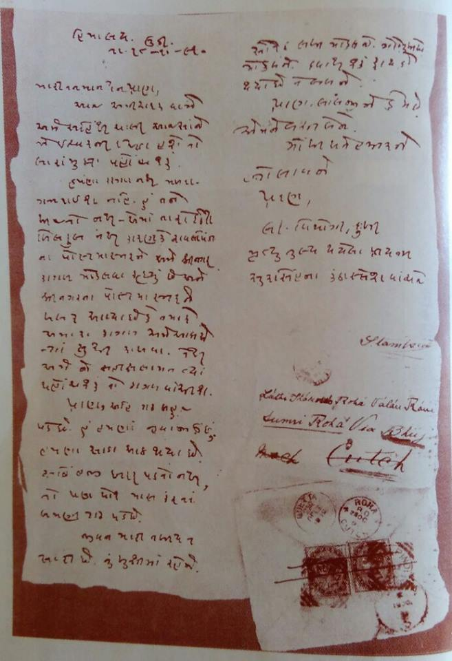 Handwriting of Kalapi (A latter, written to Monghi (Shobhana), his girlfriend)